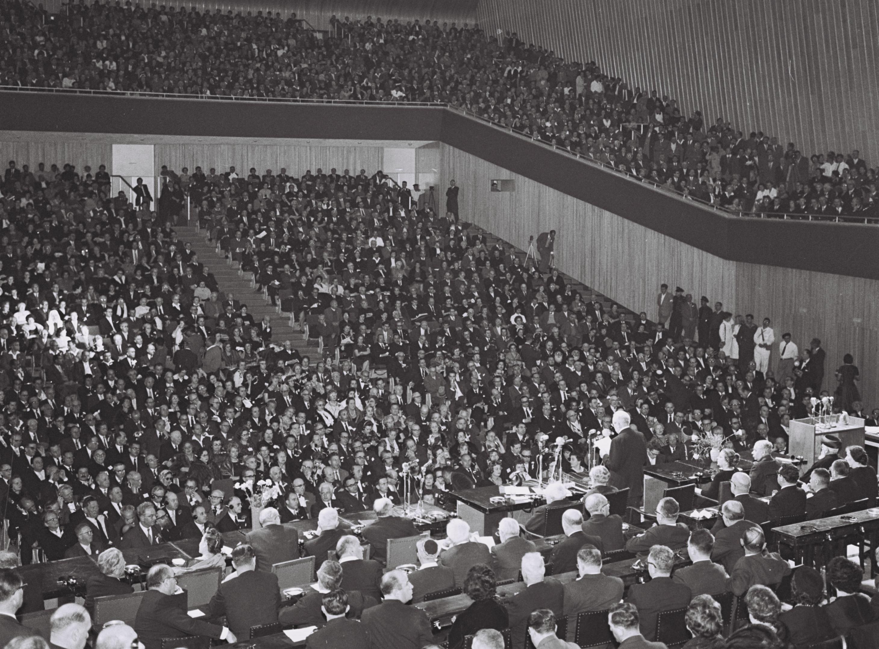 President Yitzhak Ben Zvi addressing the 25th Zionist Congress at Binyaney Hauma in Jerusalem